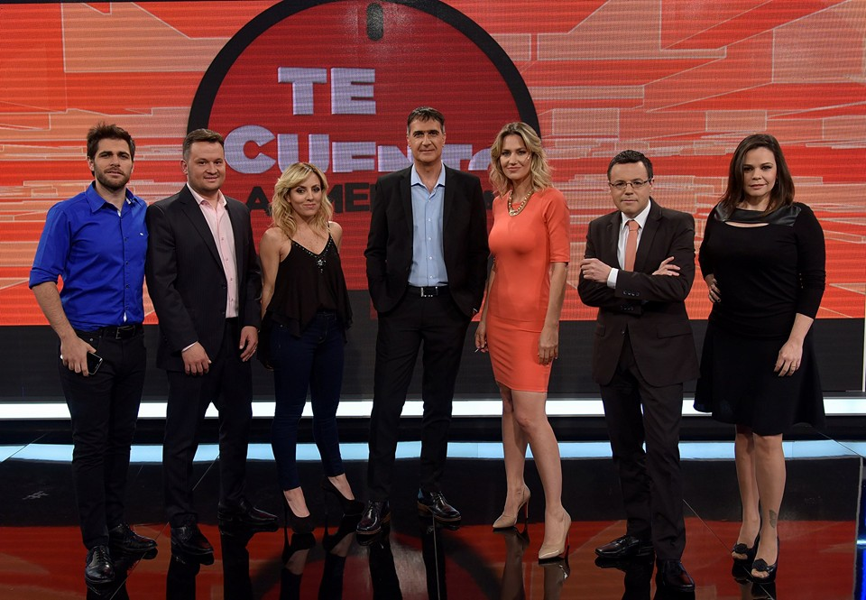 El equipo de Te cuento al mediodía. Fernando Carolei, Mariano Oliveros, Cora Debarbieri, Antonio Laje, Carolina Losada, Diego García Sáez y Mariana Contartesi.